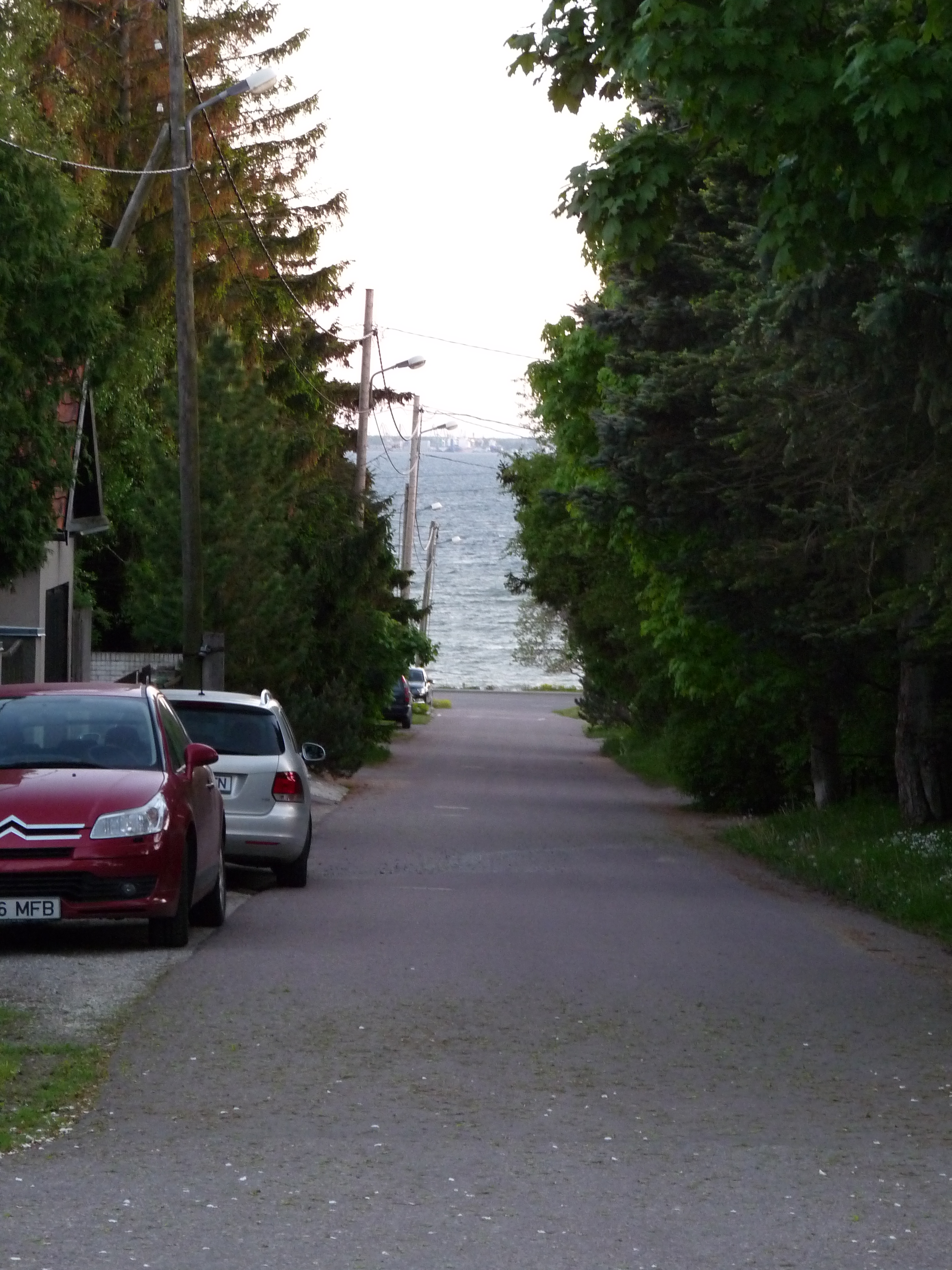 Vaate street in Tallinn, Estonia